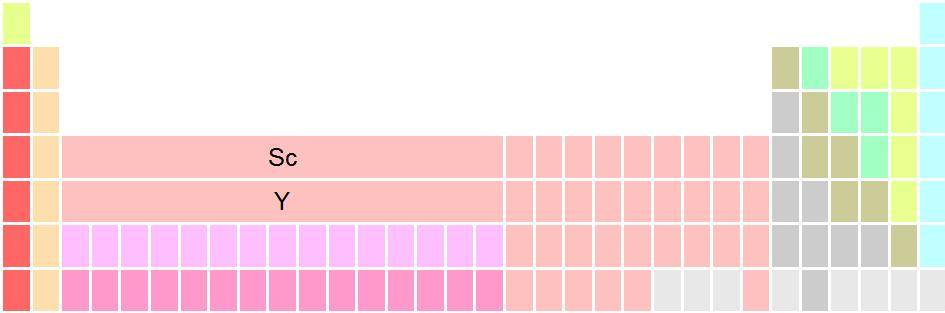 An 18 column periodic table, with either the atomic numbers 57–71 and 89–103 or the symbols La–Lu and Ac–Lr under Y, expanded into a 32 column periodic table. Such a graphic design implies that the cells containing Sc and Y end up spanning all 30 of the lanthanides and actinides.